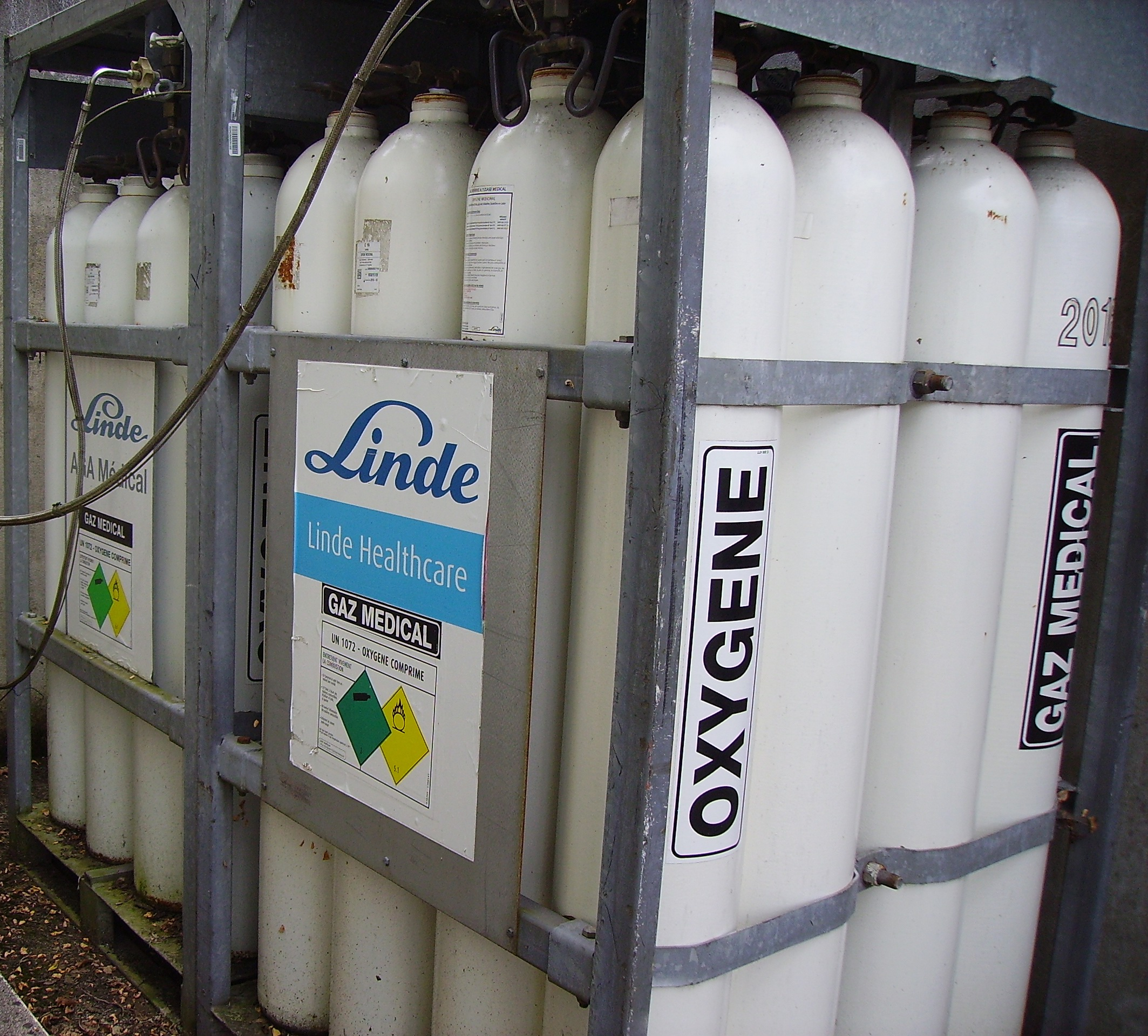 Medical oxygen cylinders - 50-liter cylinder, 200 bar - mainly used for oxygen therapy. Linde Healthcare - AGA Medical.UN 1072: Oxygen, compressed.